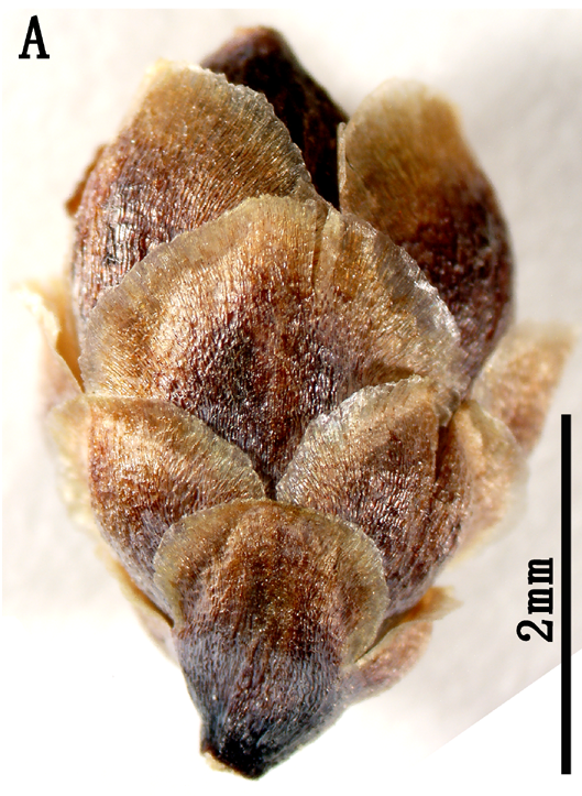 A membranous female cone of Ephedra californica Watson in Sect. Alatae Stapf.